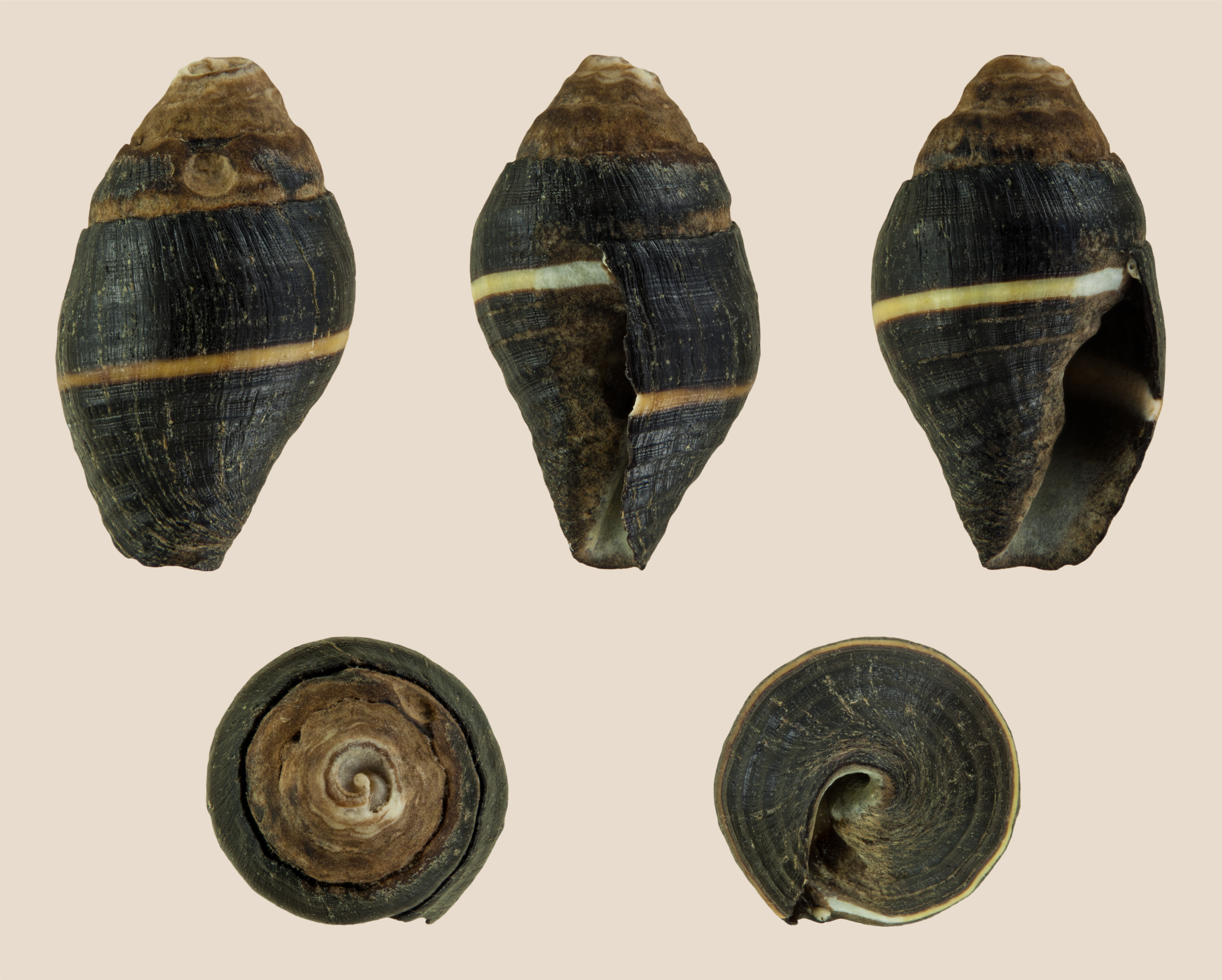 Engina mendicaria var. unilineata Dautzenberg, Ph., 1929; Length 1.6 cm; Originating from the Gulf of Aqaba, Egypt; Shell of own collection, therefore not geocoded.